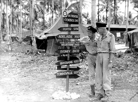 Los Negros, Admiralty Islands, New Guinea. April 1944. Flying Officer M. (Max) Walsh, 114 Fighter Control Unit (left), and 256621 Flight Lieutenant R. H. (Bob) Chaffey, Defence Officer, No. 79 (Spitfire) Squadron RAAF (right), examine the sign at the entrance to the RAAF's 114 Fight Control Unit in Momote plantation at Southeast Point. The sign reads, "Perth 5290, Adelaide 3507, Young & Jacksons Pub Melbourne 2990, Sydney 2472, Brisbane 1955, Townsville 1237".